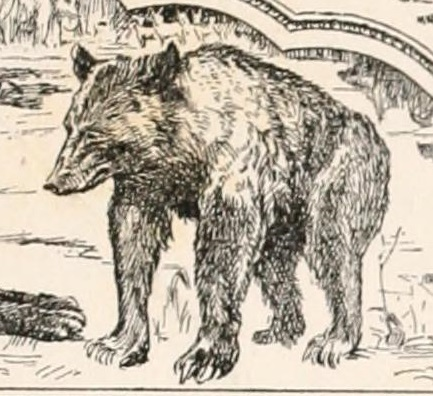 Title: The second jungle book Year: 1895 (1890s) Authors: Kipling, Rudyard, 1865-1936 Subjects: Animals, Legends and stories of Publisher: London New York : Macmillan Text Appearing Before Image: ' Text Appearing After Image: HOW FEAR CAME The stream is shrunk—the pool is drj-,And we be comrades, thou and I ;With fevered jowl and dusty flankEach jostling each along the bank ;And by one drouthy fear made stillForegoing thought of quest or kill.Now neath his dam the fawn may see,The lean Pack-wolf as cowed as he,And the tall buck, unflinching, noteThe fangs that tore his fathers throat.The pools are shrunk—the streams are dry.And we be playmates, thou and I,Till yonder cloud—Good Hunting!—looseThe rain that breaks our Water Truce. HE Law of the Jungle—which is by far the oldestlaw in the world — hasarranged for almost everykind of accident thatmay befall the JunglePeople, till now its codeis as perfect as time andcustom can make it. Ifyou have read the otherstories about Mowgli, you will remember that he^/3E ji